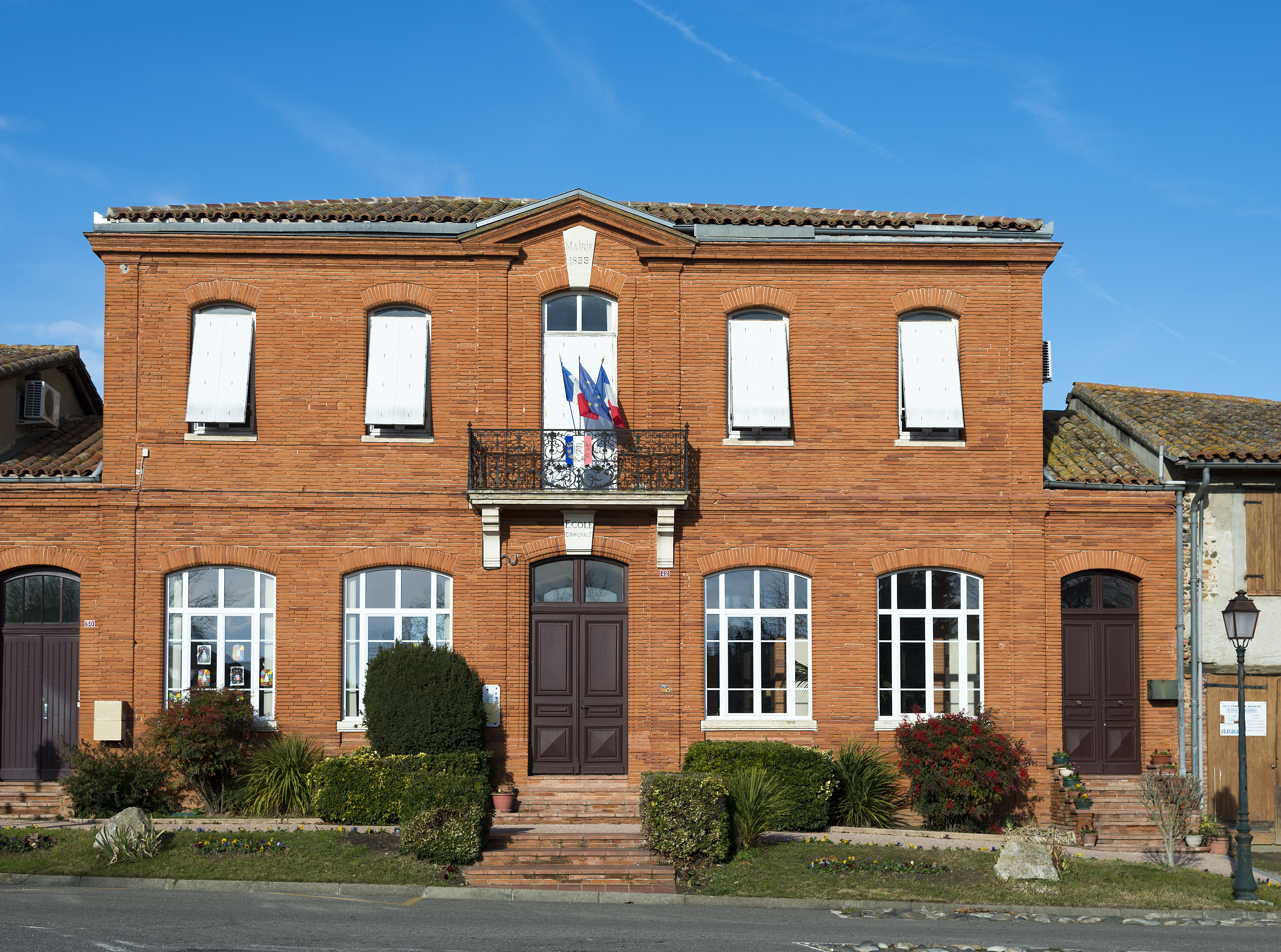 Saint-Cézert, Haute-Garonne, France. Facade of Town Hall.